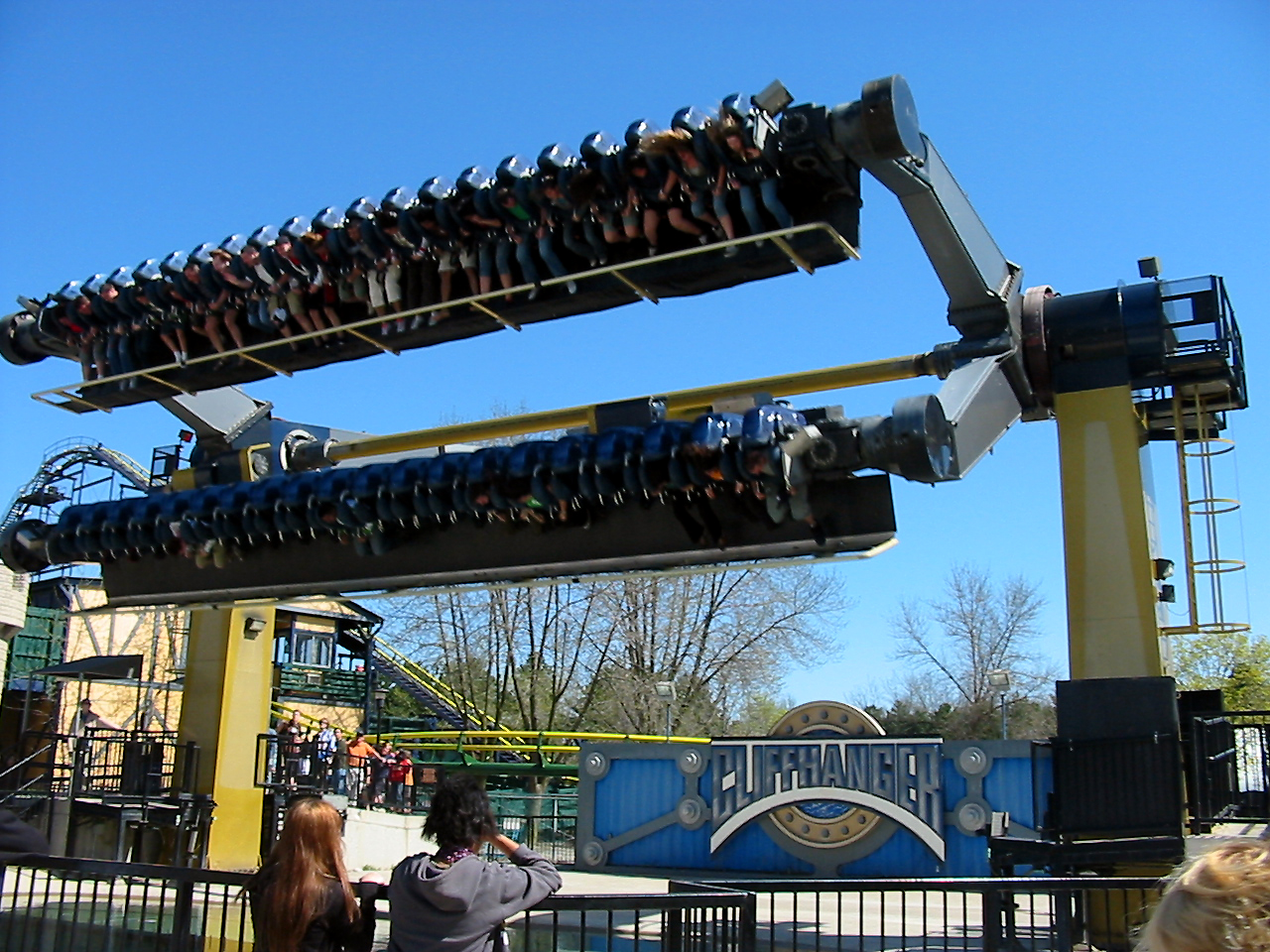 This is a photo of the Cliffhanger ride at Canada's Wonderland.